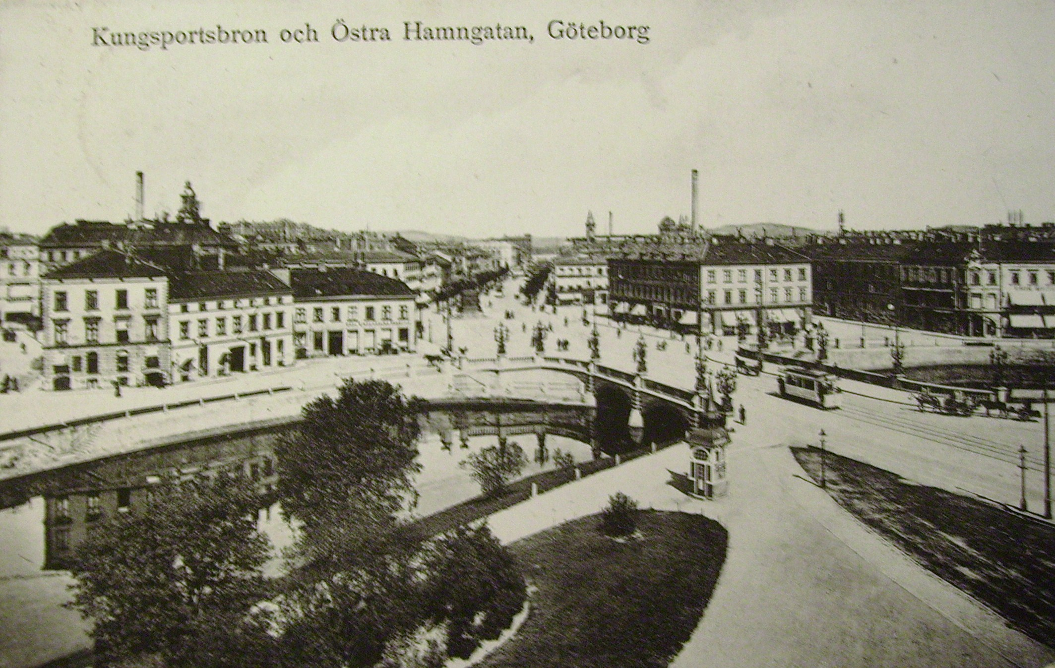 Picture of Kungsportsbron and Östra Hamngatan in Göteborg